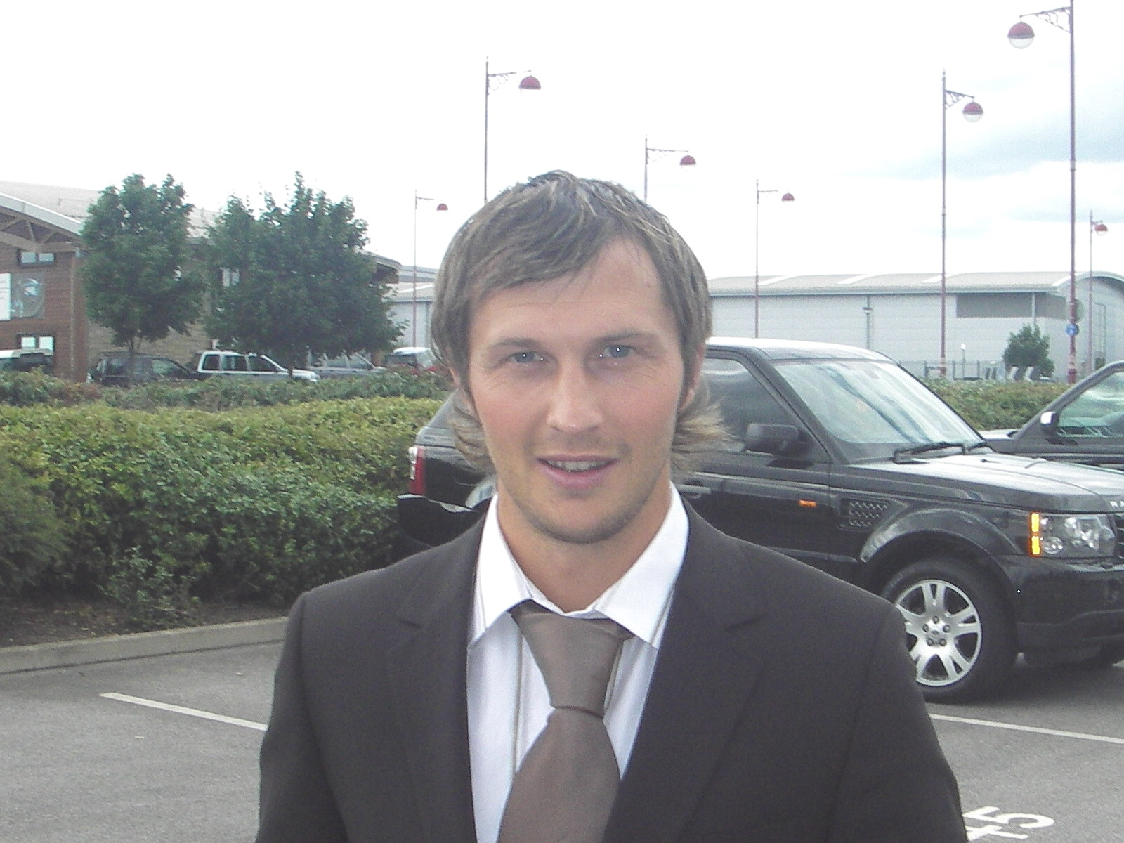 Richard Jackson, Derby County player.